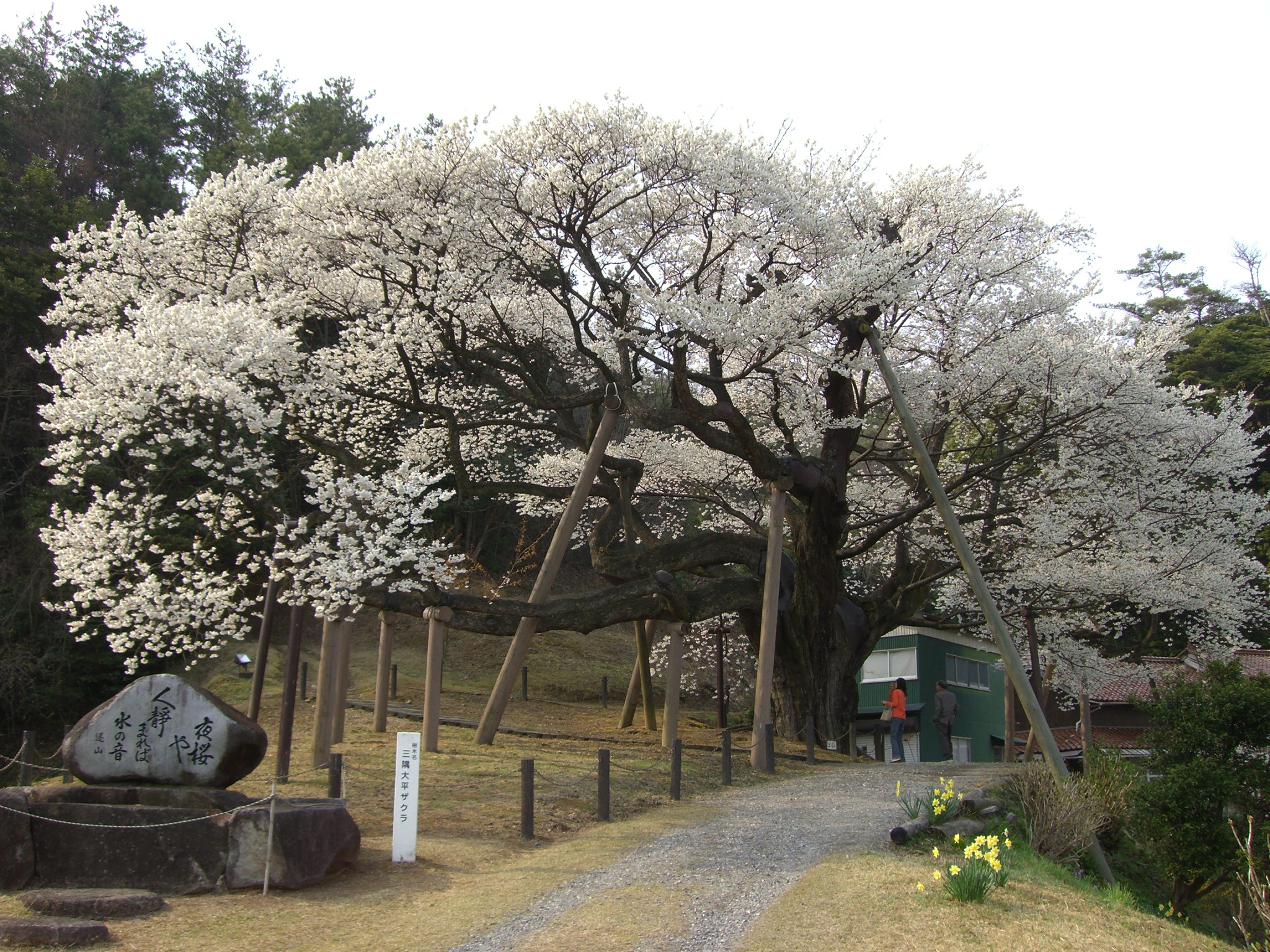 Approx. 600 year old cherry tree in Misumi, an area of western Hamada, Shimane, Japan. Author: Kenneth R. Griggs. Photographer: Kenneth R. Griggs